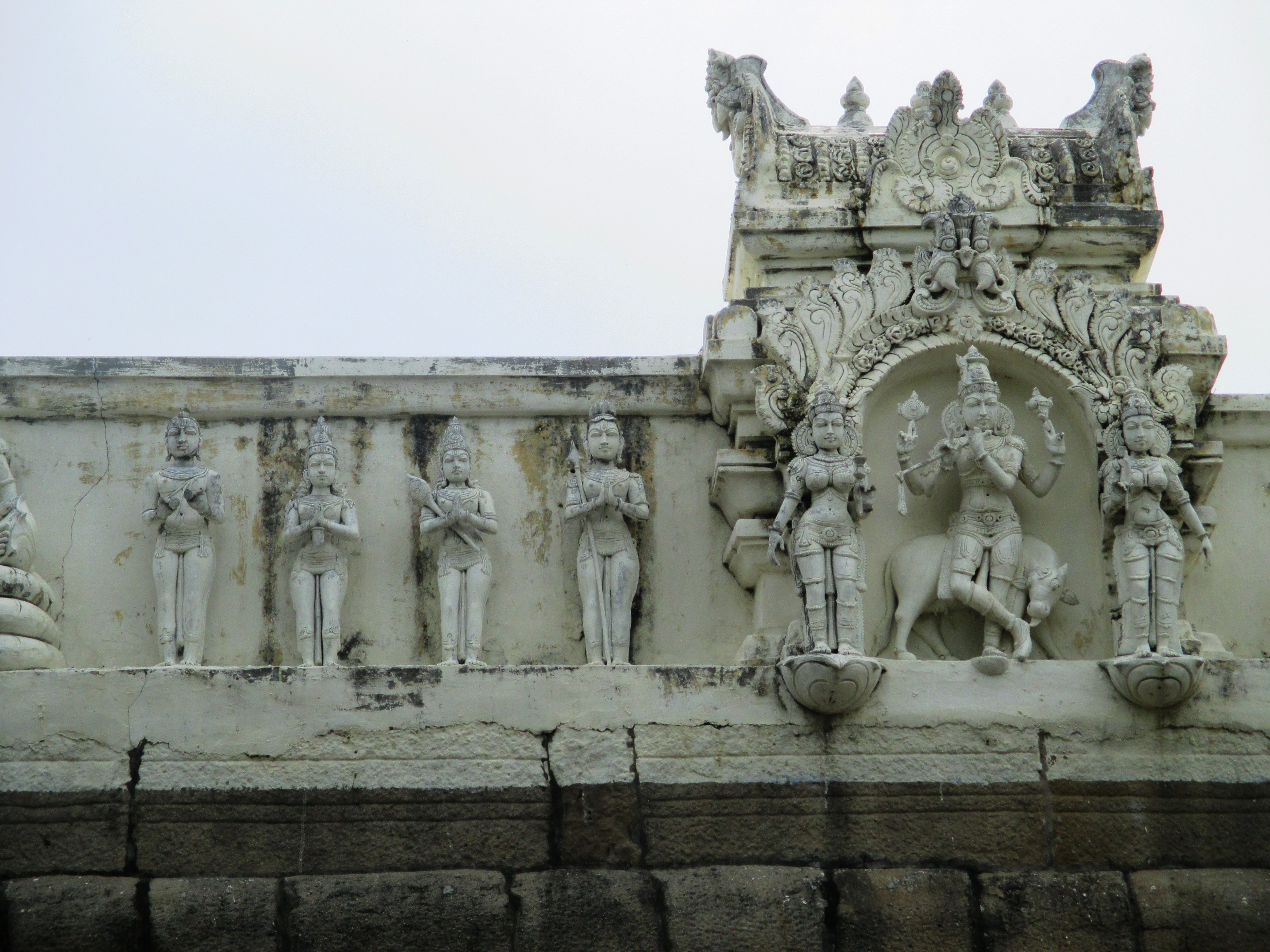 Thiruthanka